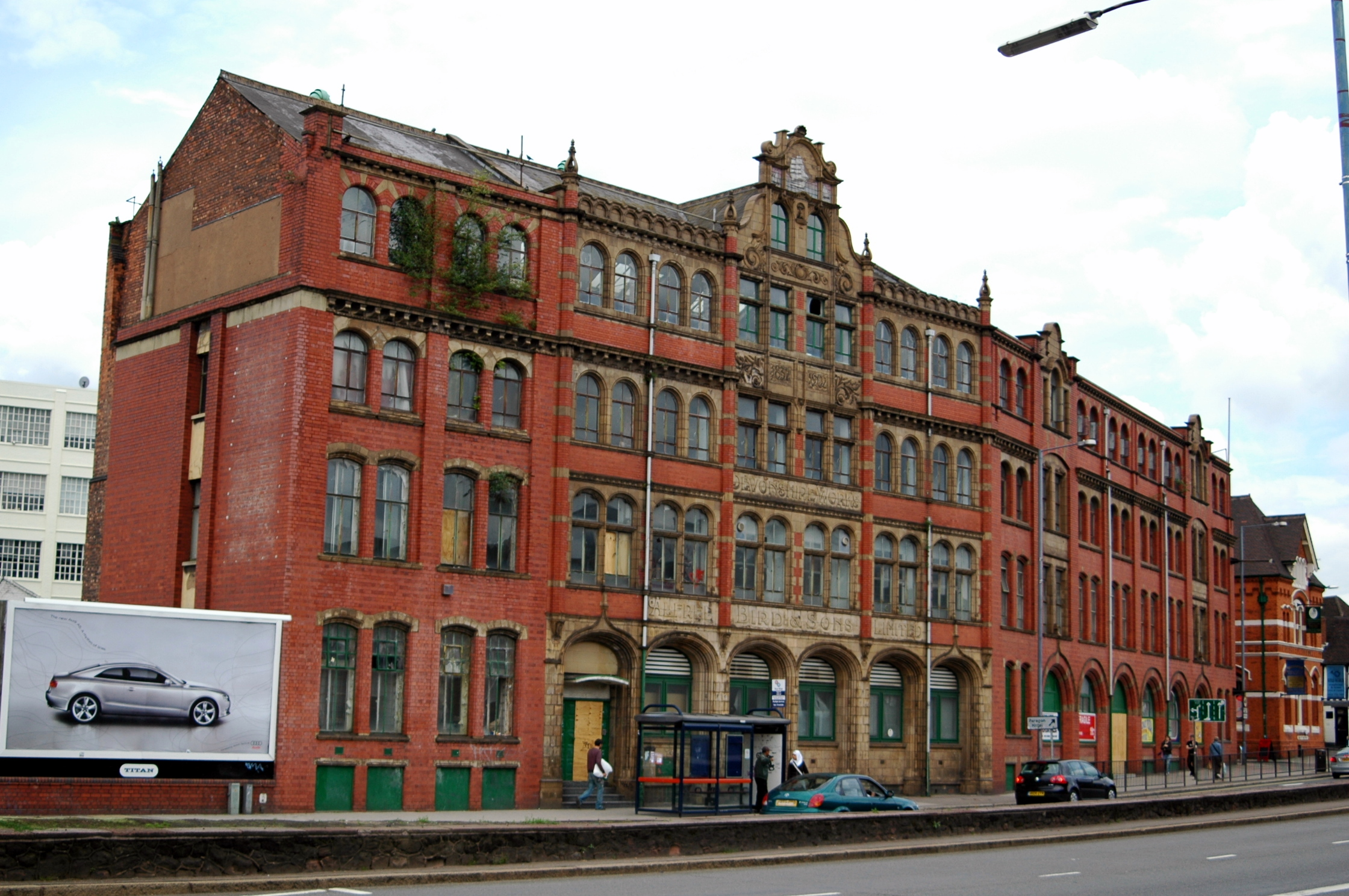 The Devonshire Works is a Victorian building which has been incorporated into the Custard Factory complex. It is to be redeveloped with more space for businesses. This is the façade viewed from Deritend.